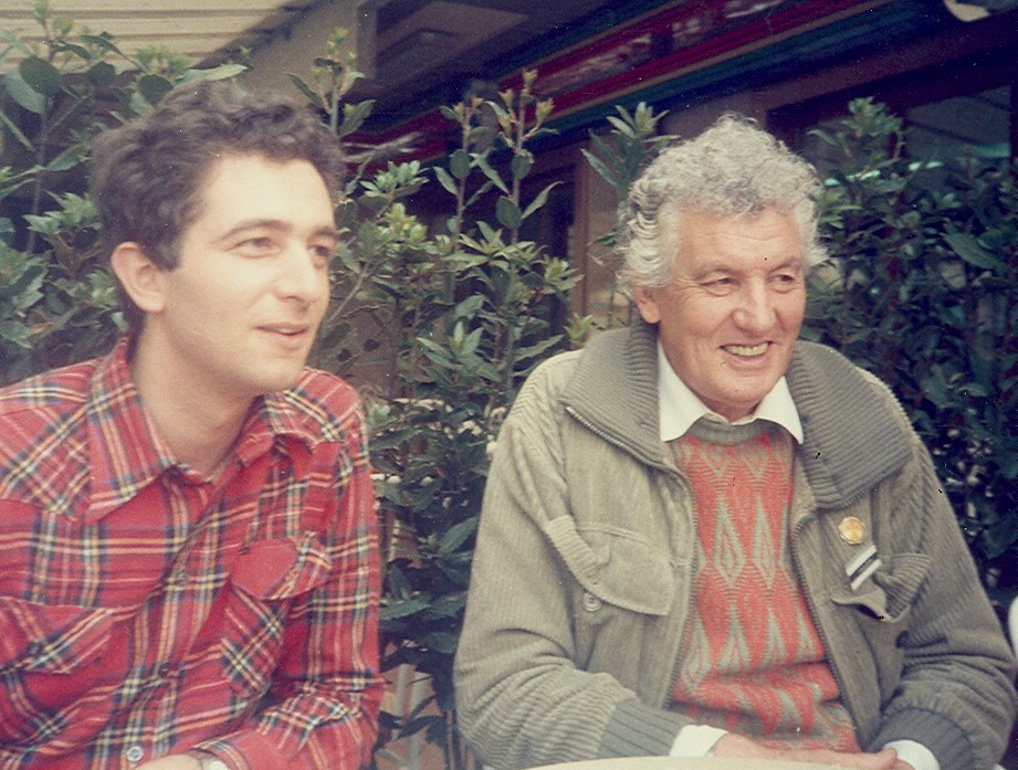 Bruno Cetto con l'alunno Mario Covini 1985 circa